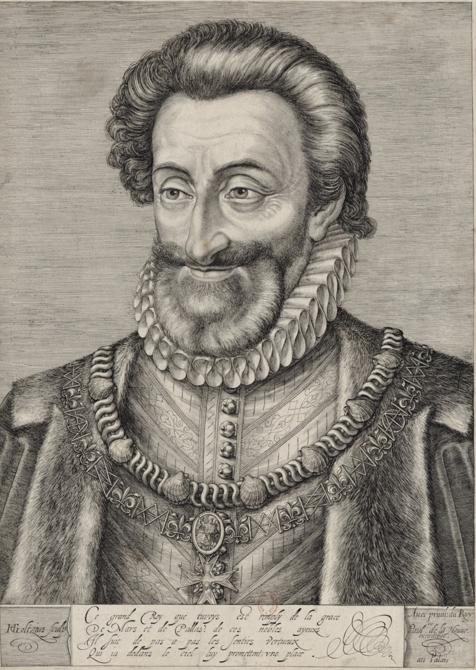 Henry IV of France (1553–1610)